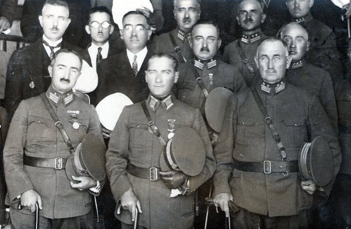 Mehmed Emin (Koral), Mustafa Kemal (Atatürk), and Ali Said (Akbaytogan) at İnebolu in 1925.